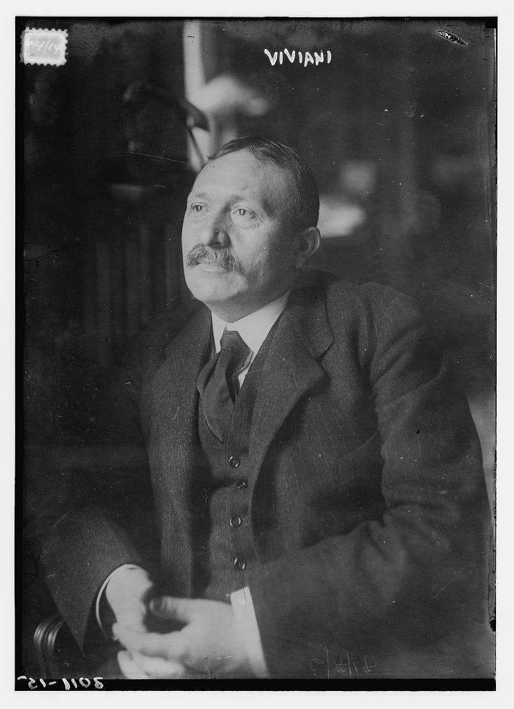 Jean Raphaël Adrien René Viviani